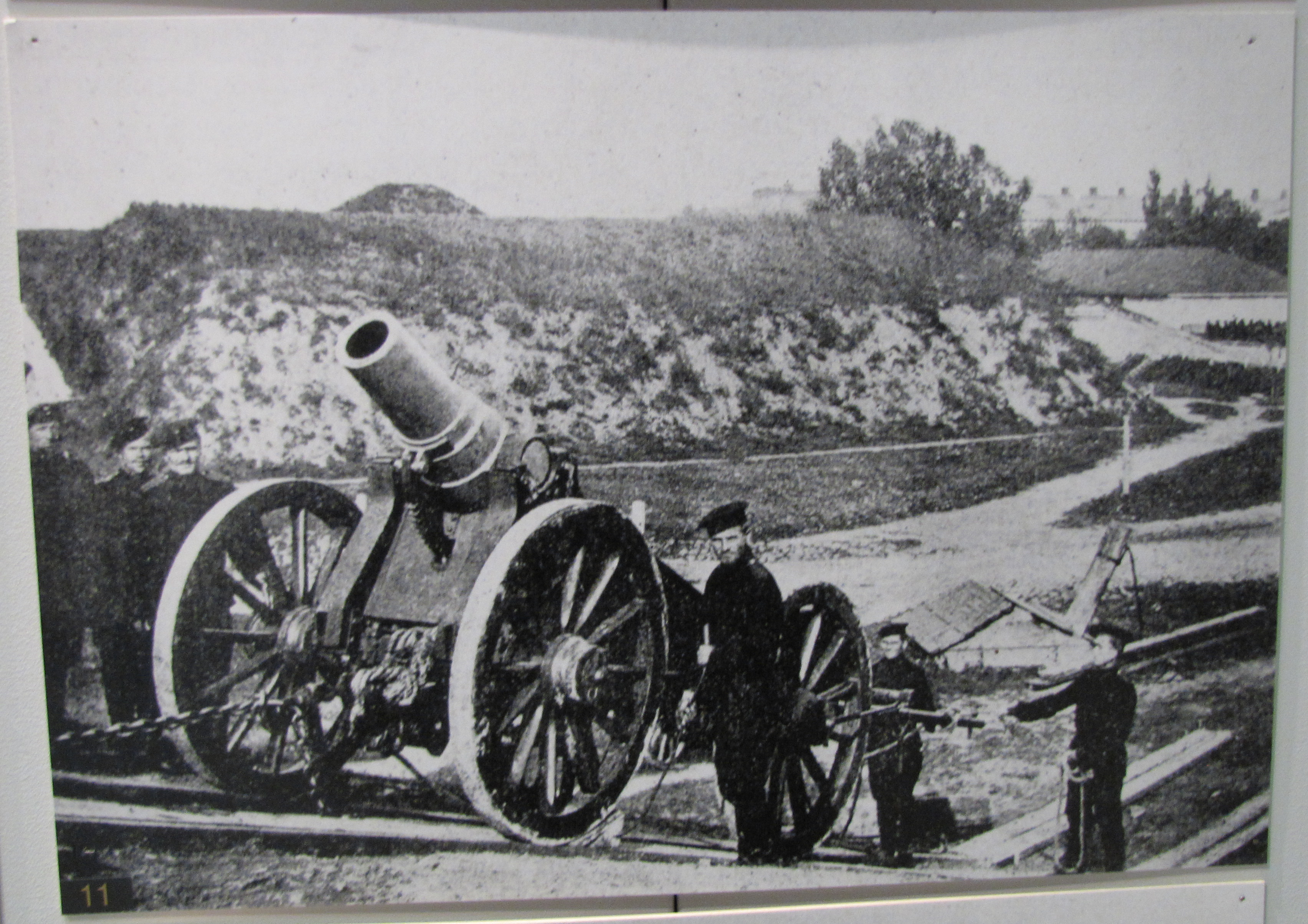 9 inch model 1877 coastal mortar being moved into position with temporary wheels.